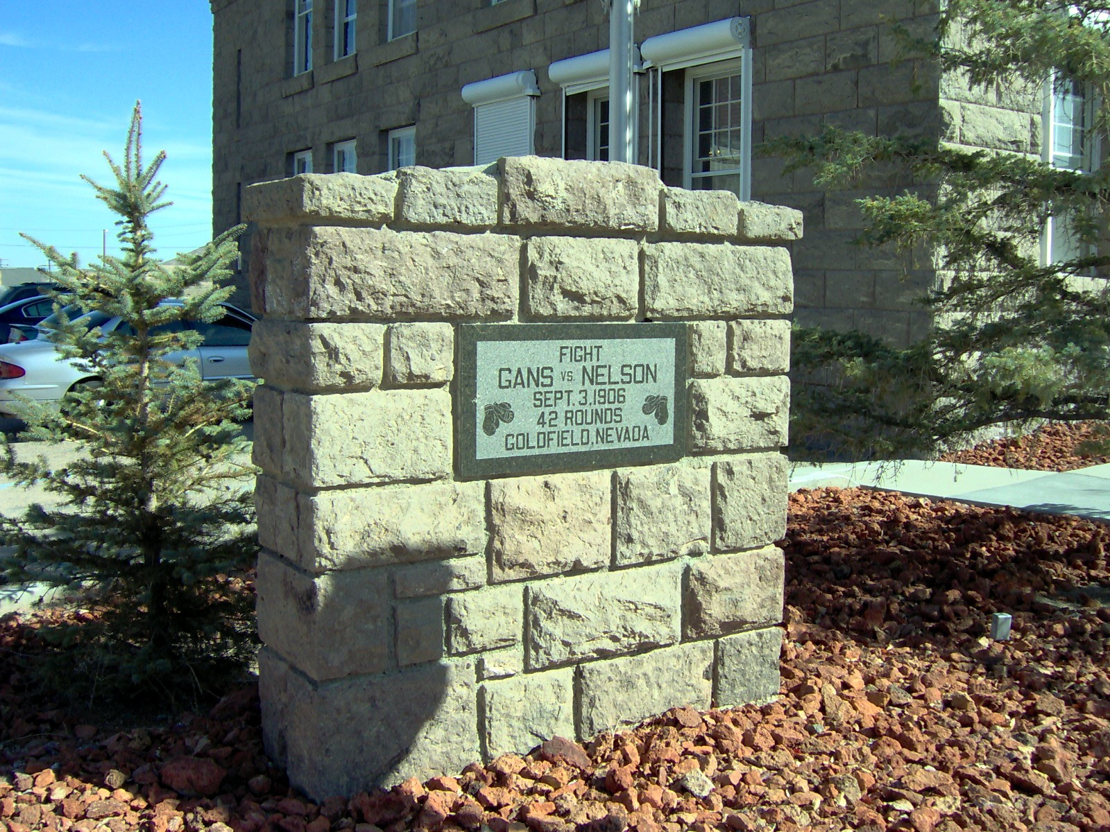 Marker at the Esmeralda County, Nevada courthouse commemorating the 1906 lightweight boxing championship match staged in Goldfield, Nevada between Joe Gans and Oscar "Battling" Nelson.